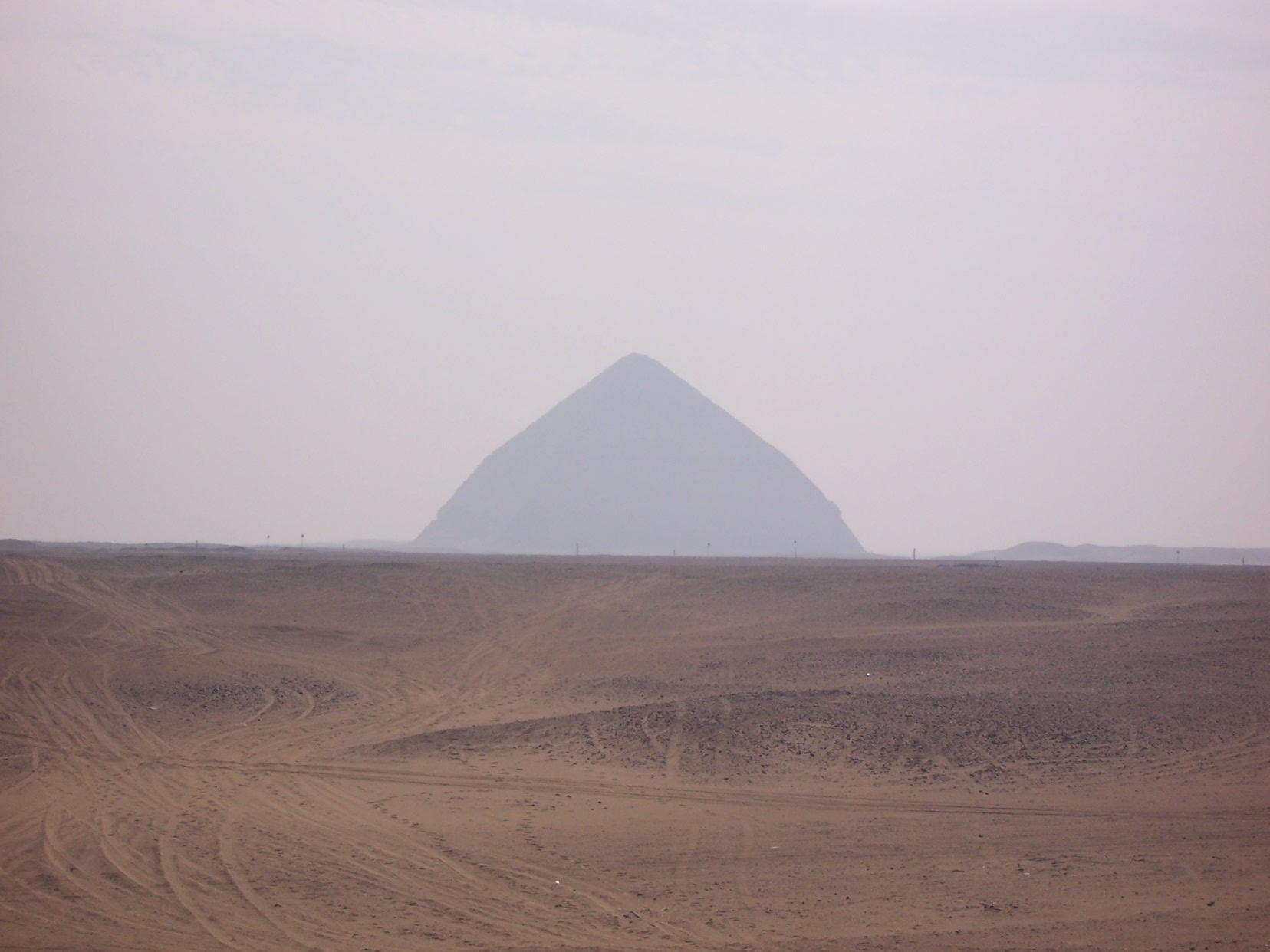 Pictures from Dahshur, Egypt